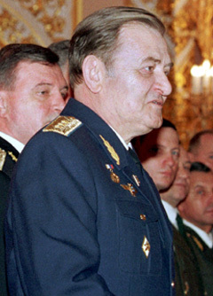 GRAND KREMLIN PALACE, MOSCOW. Mr Putin presented the epaulets of general of the army to Anatoly Kornukov, commander-in-chief of the Russian Air Force.